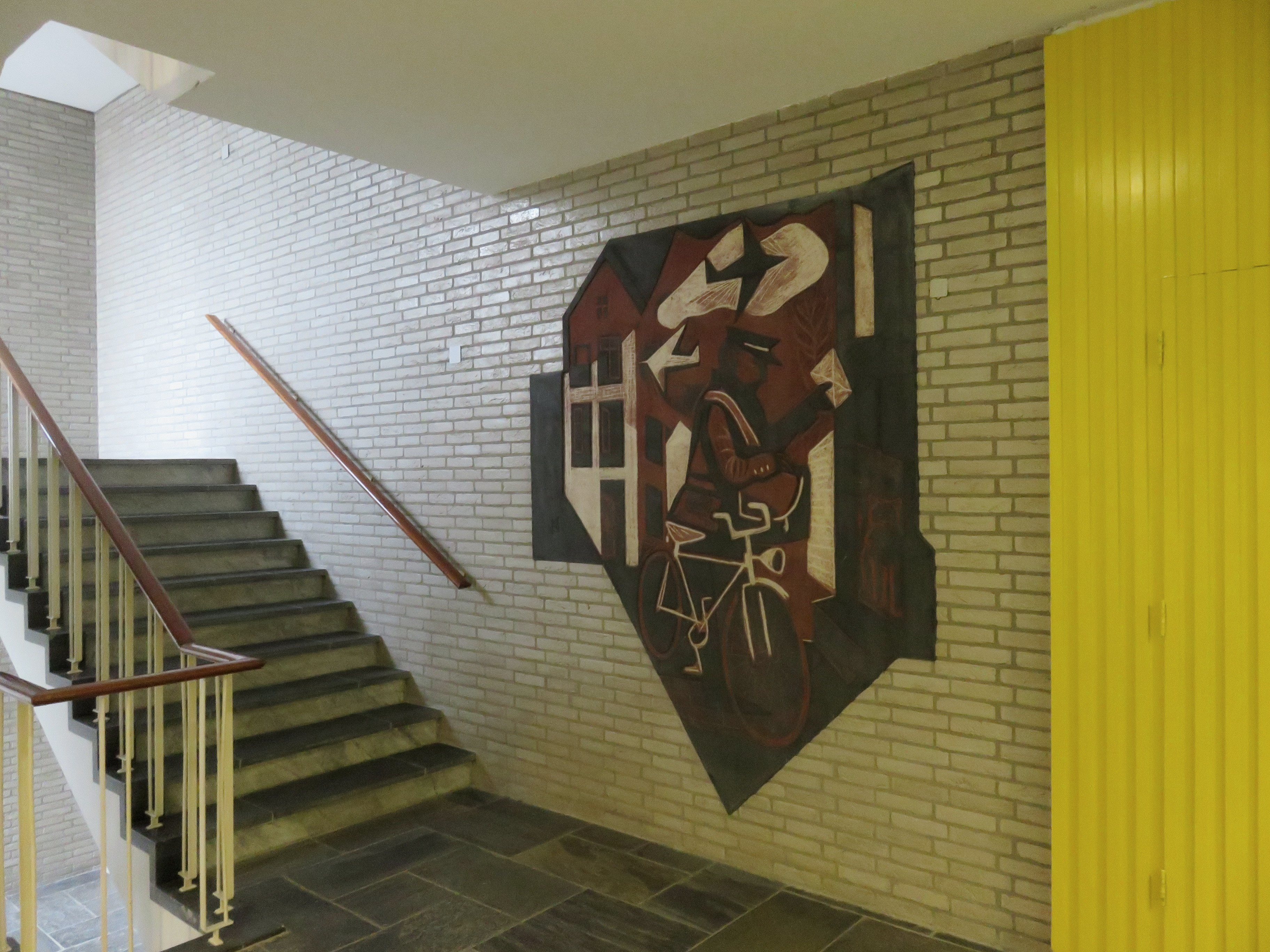 Stationspostgebouw in Rotterdam (NL) on Delftseplein 31. National monument